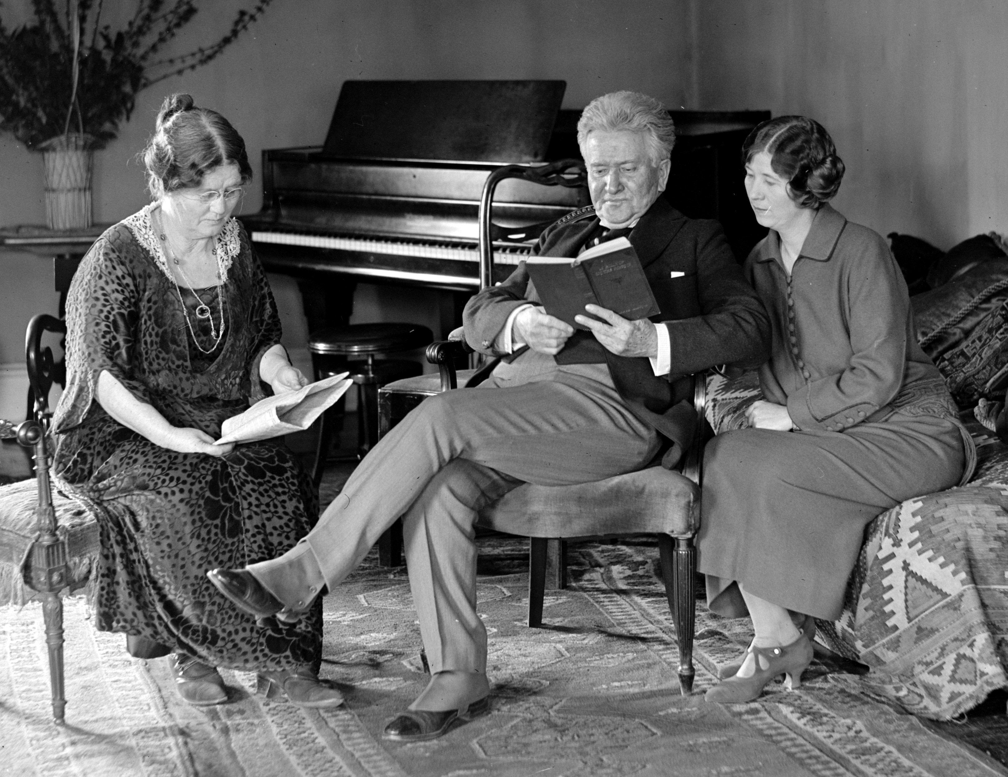 Sen. La Follette & family FORMAT: Glass negative